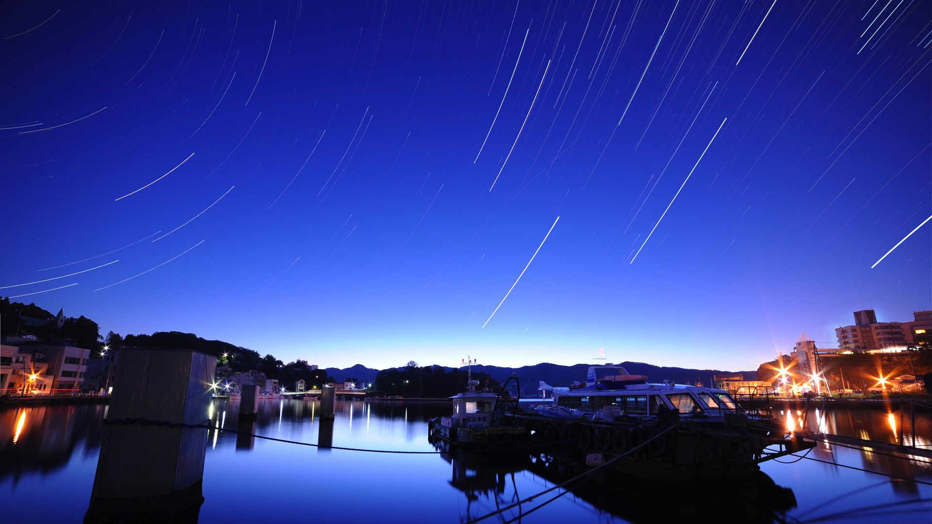 Inner Bay, Kesennuma Port, Kesennuma, Miyagi, Japan